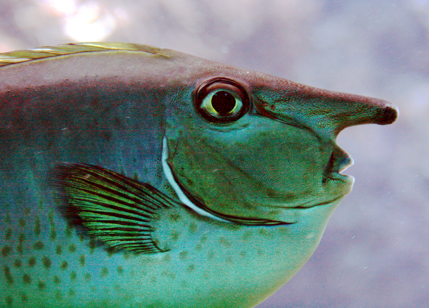 Austria, Vienna, Tiergarten Schönbrunn